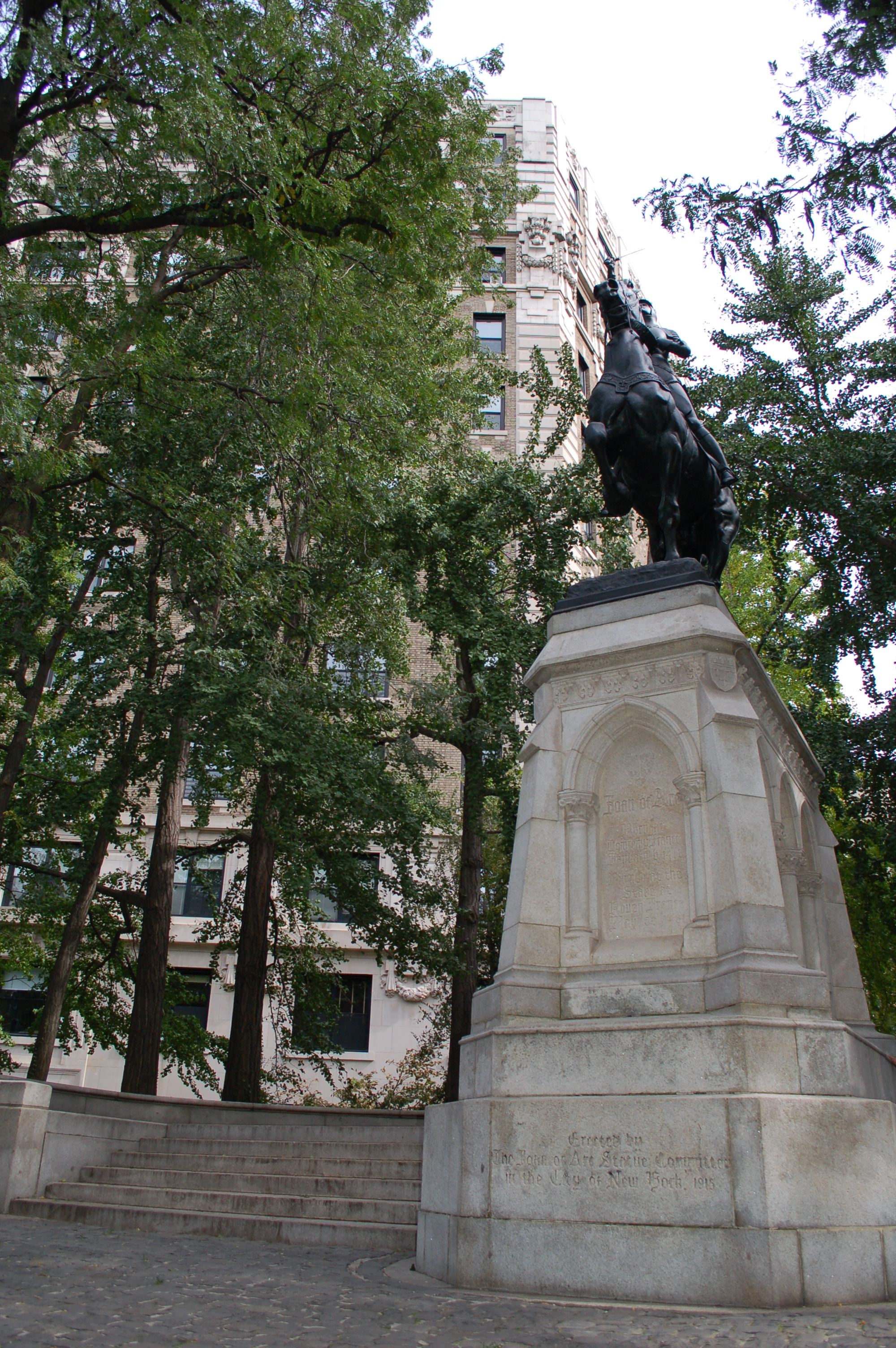 Joan of Arc Statue in New York City